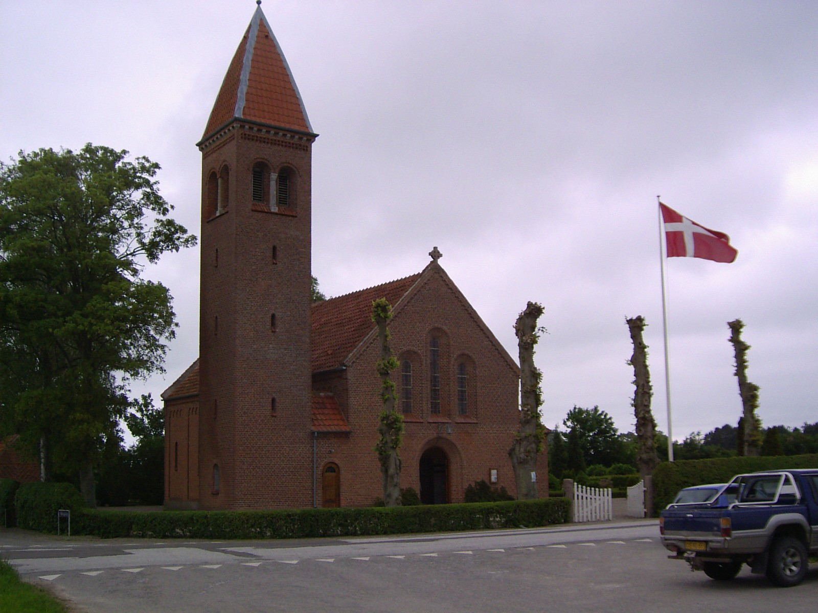 Church in Nøbbet, Community of Lolland, diocese of Lolland-Falster. Date: 2007.06.02 Author: Sir48